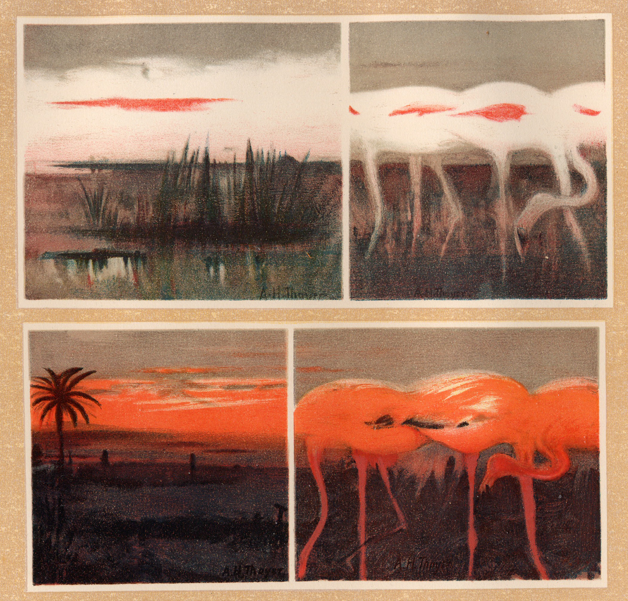 Plate X: White Flamingoes, Red Flamingoes, The Skies They Simulate, painted by Abbott Handerson Thayer for the book Concealing-Coloration in the Animal Kingdom 1909. The image implies that flamingoes owe their colours to camouflage, a view derided by critics including Theodore Roosevelt.